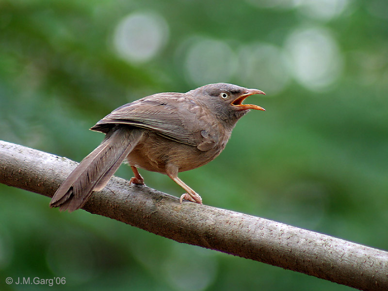 Jungle Babbler Turdoides striatus in Bhuveneshwer, Orissa, India.